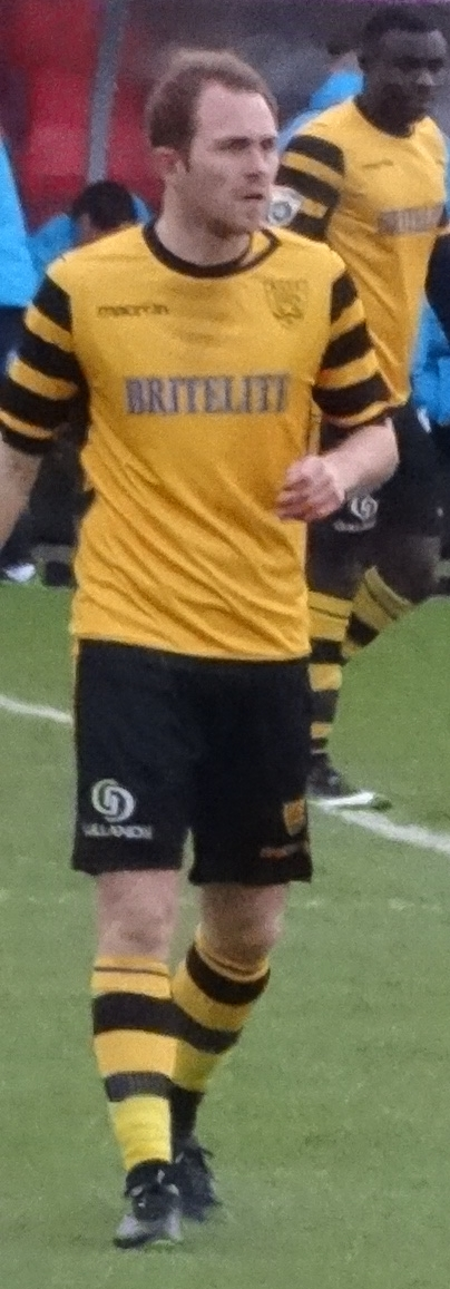 Stuart Lewis playing for Maidstone United against York City at Bootham Crescent, York on 11 February 2017